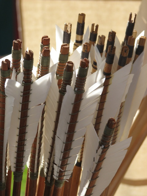 Photographer: David de Groot